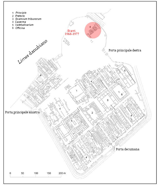 Italian and png version of File:Legionslager Carnuntum Uebersichtsplan.jpg